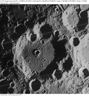 Brianchon's rim is interrupted on the north by 50-km Brianchon A, and on the south (just to the left of the centerline) by 31-km Brianchon B. The 67-km crater in the upper right is Poncelet C, and the large light area below it (along the right margin) is the western part of 115-km Pascal.